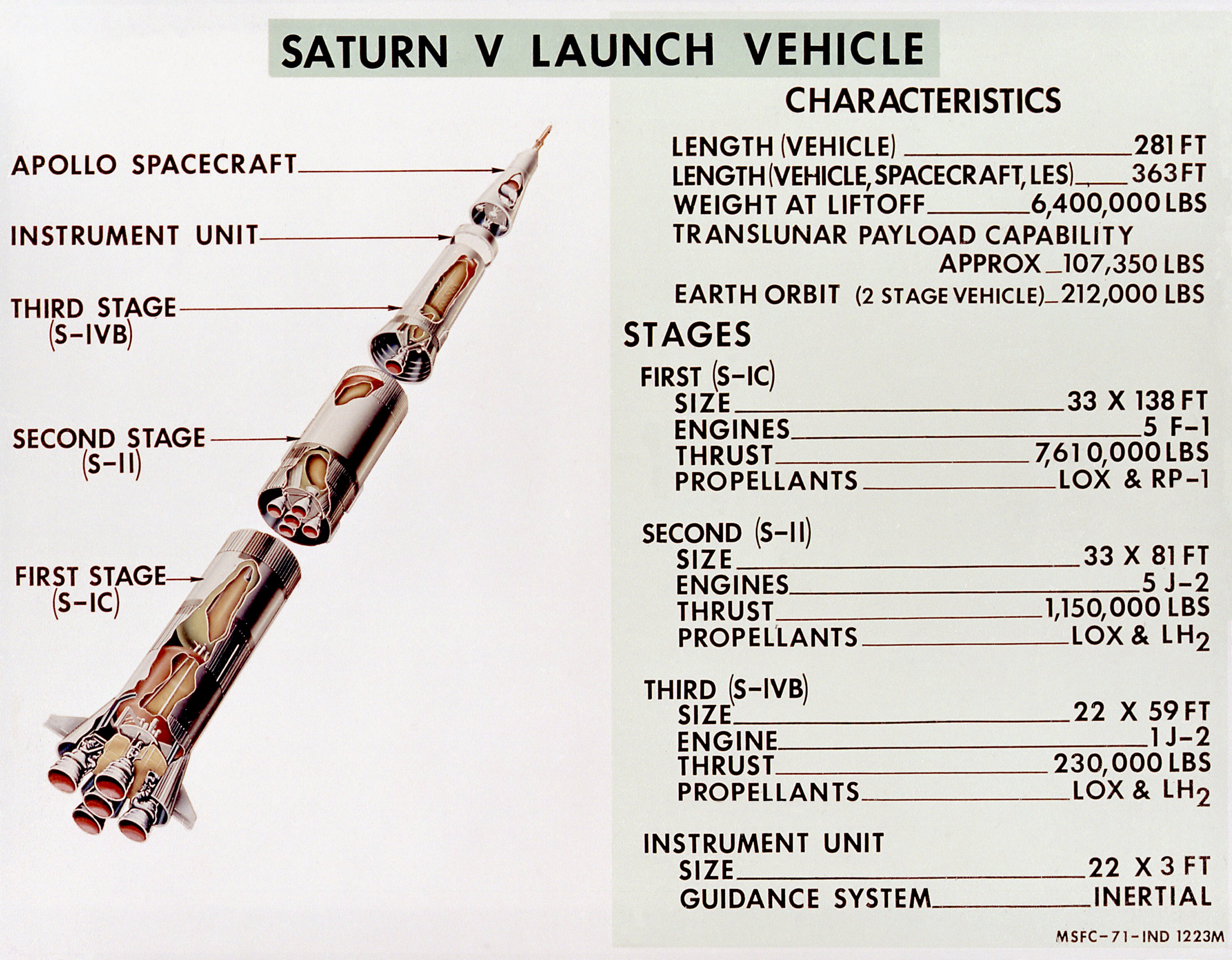 This is a good cutaway diagram of the Saturn V launch vehicle showing the three stages, the instrument unit, and the Apollo spacecraft. The chart on the right presents the basic technical data in clear detail. The Saturn V is the largest and most powerful launch vehicle in the United States. The towering 363-foot Saturn V was a multistage, multiengine launch vehicle standing taller than the Statue of Liberty. Altogether, the Saturn V engines produced as much power as 85 Hoover Dams. Development of the Saturn V was the responsibility of the Marshall Space Flight Center at Huntsville, Alabama, directed by Dr. Wernher von Braun.